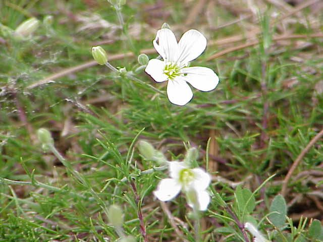 Species: Minuartia laricifolia Family: Caryophyllaceae Image No. 1